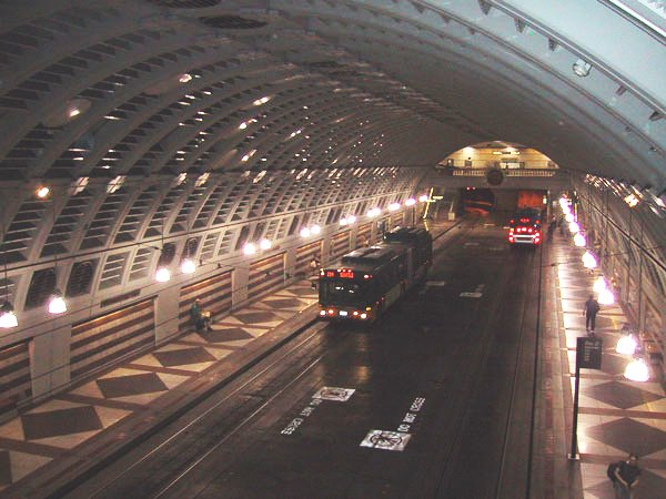 Pioneer Square Station, Seattle Metro Bus Tunnel, taken by Jkiang, brightness and contrast improved by Diderot's dreams, August 12, 2004